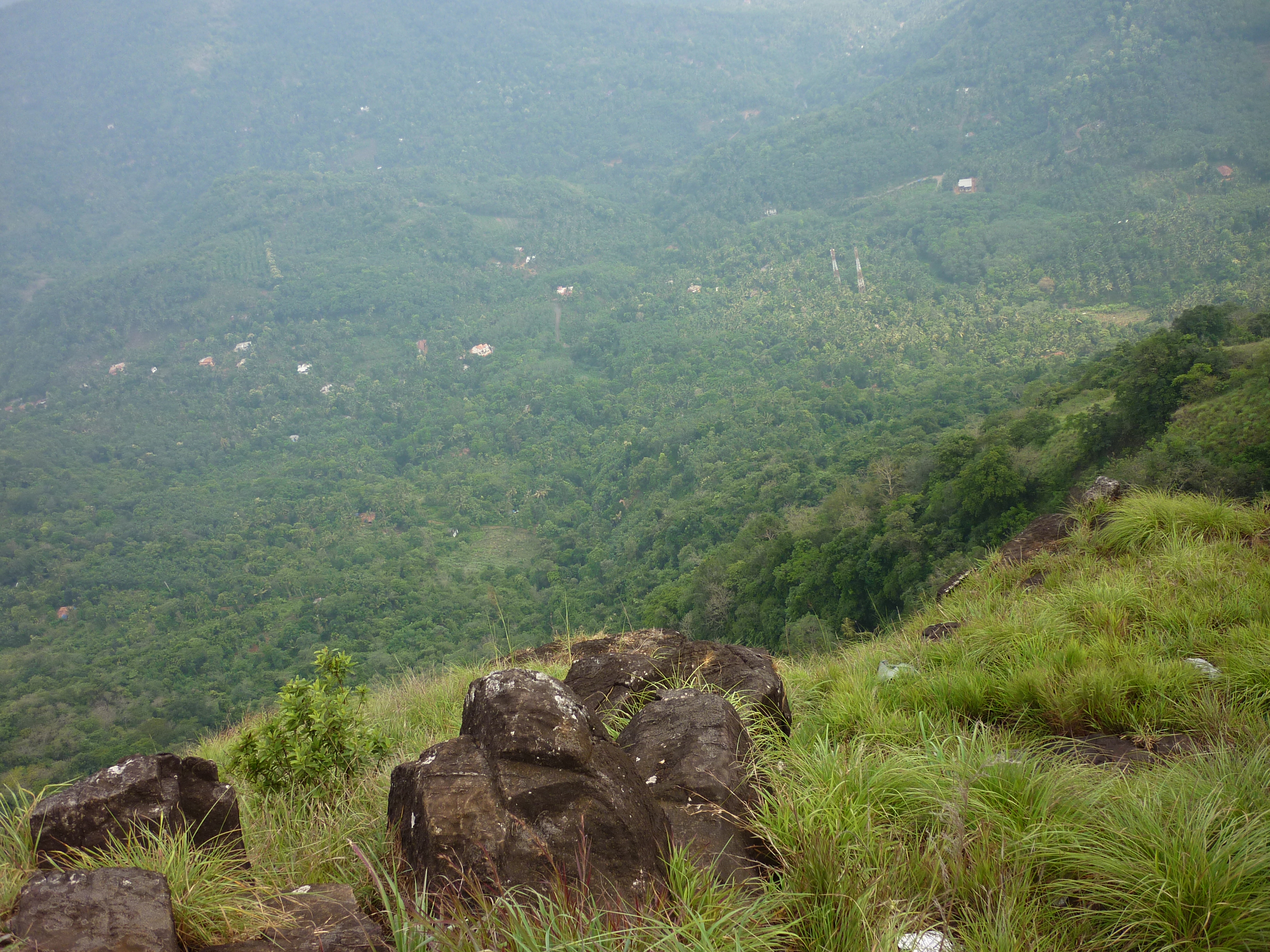 paithal mala topview